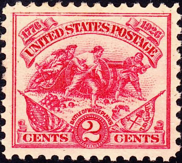 Battle_of_White_Plains_1926_Issue-2c.jpg